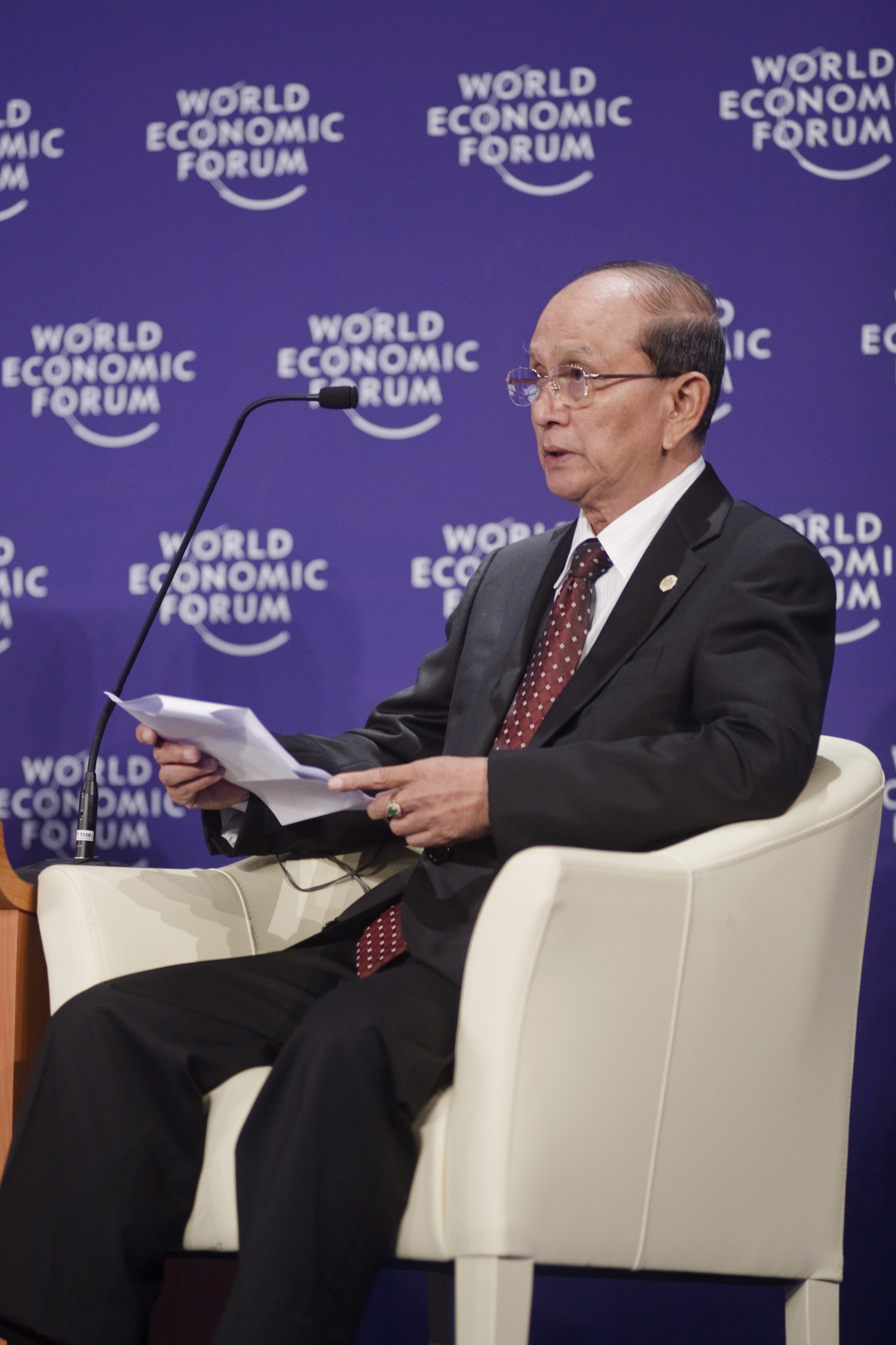 Burmese President Thein Sein at the 2010 World Economic Forum: Making the Mekong : Regional Growth and Leadership in June 2010